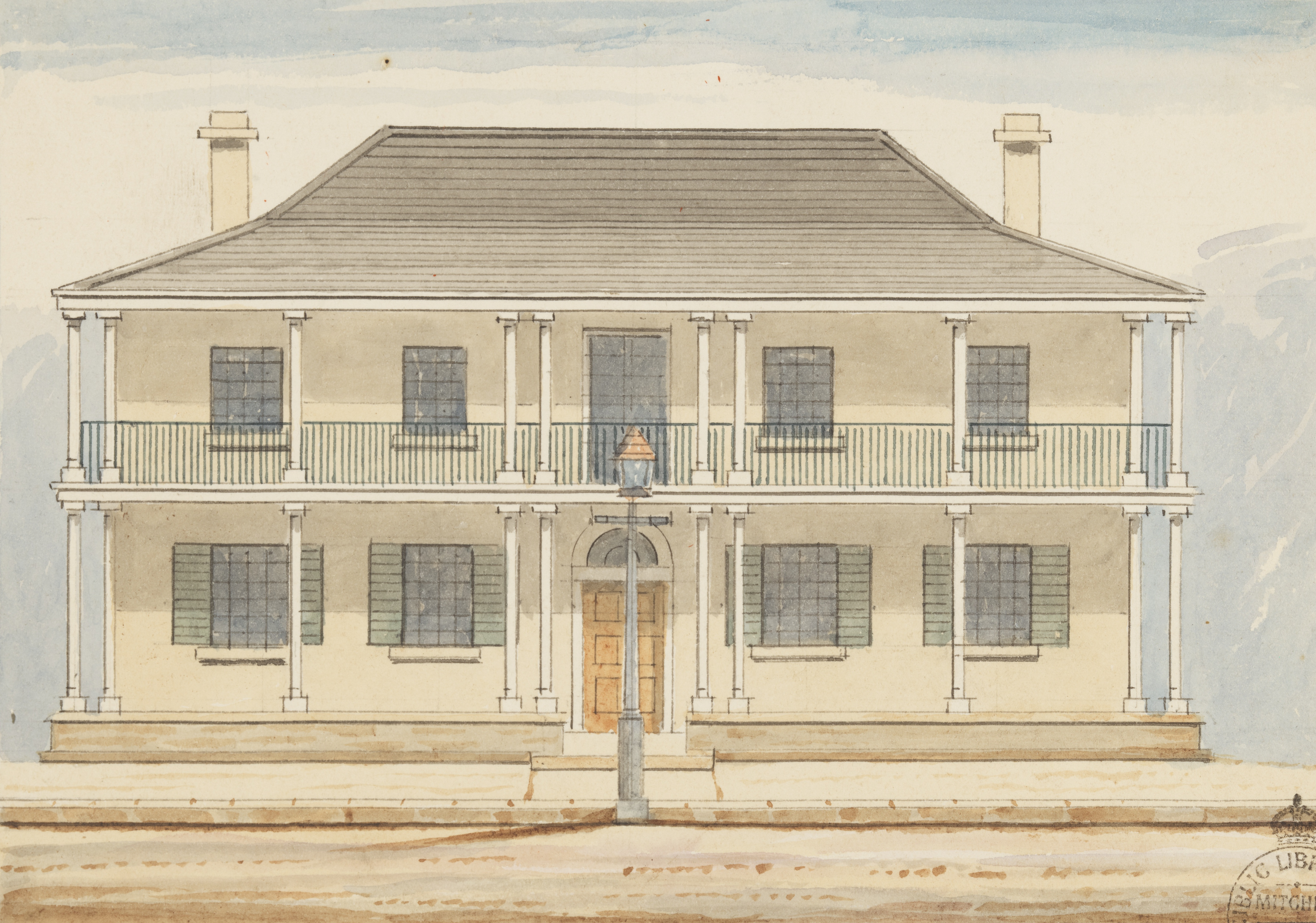 Painting by Frederick Garling of council chambers, Sydney, NSW